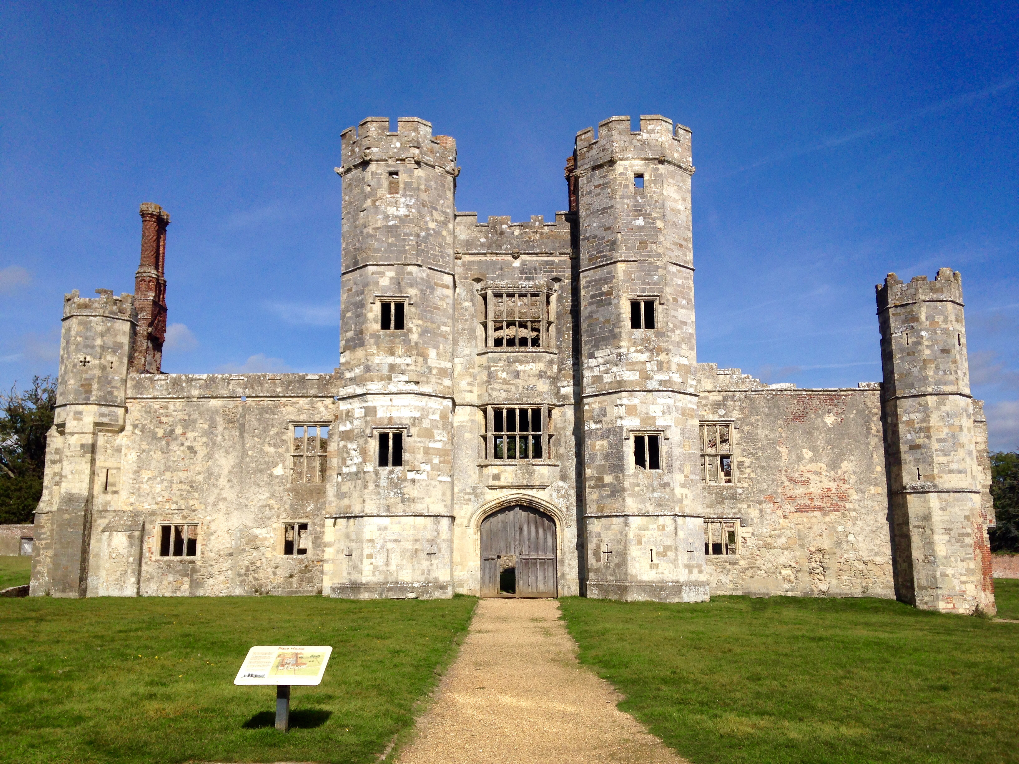 Titchfield Abbey from the front in October 2014.